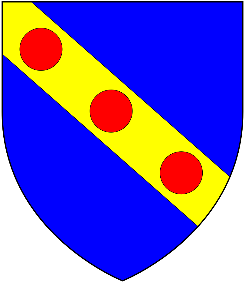 Arms of Whitleigh of Efford in the parish of Egg Buckland, Devon: Azure, on a bend or three torteaux (Pole, Sir William (d.1635), Collections Towards a Description of the County of Devon, Sir John-William de la Pole (ed.), London, 1791, p.509)